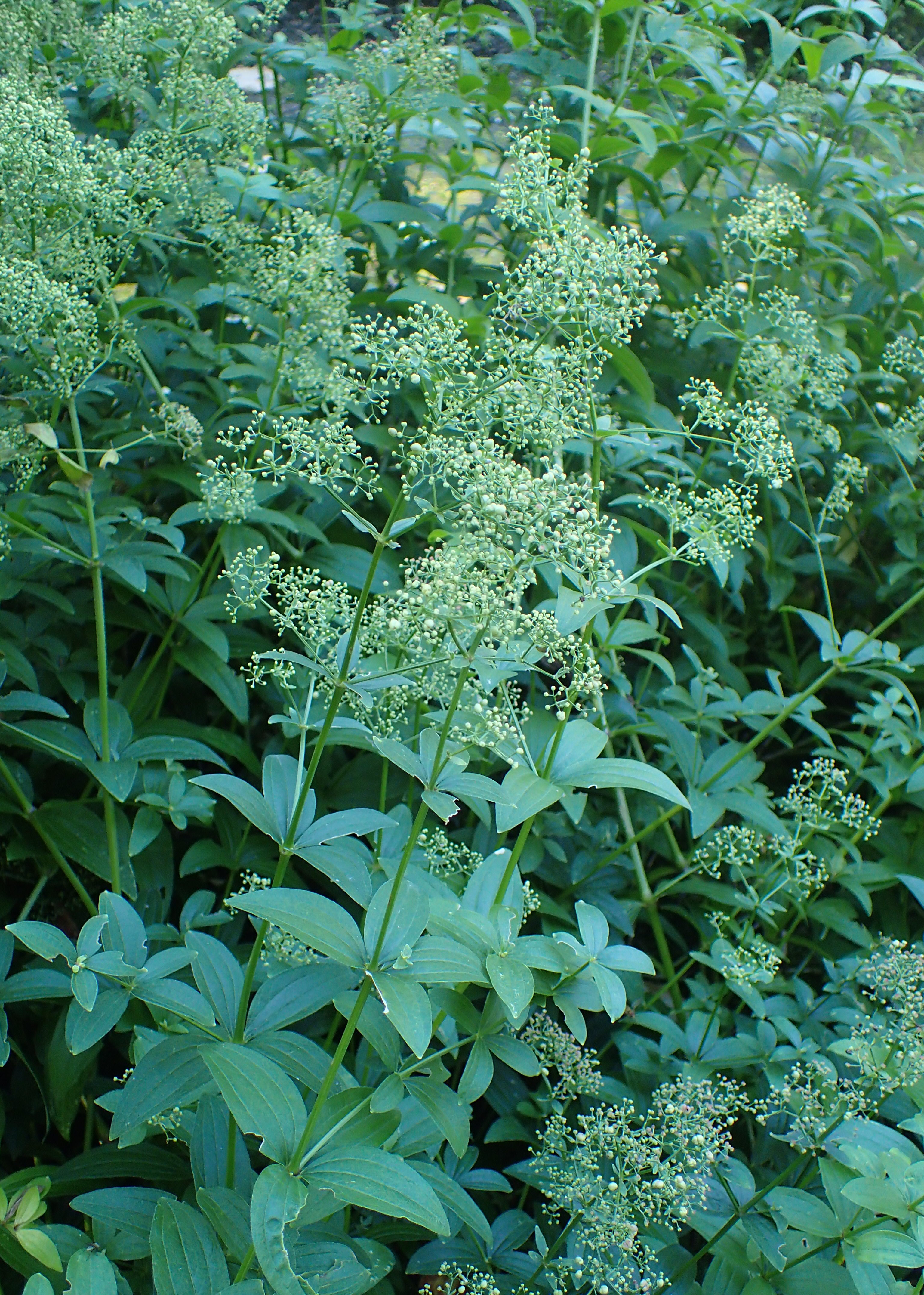 Galium rubioides in Warsaw University Botanical Garden